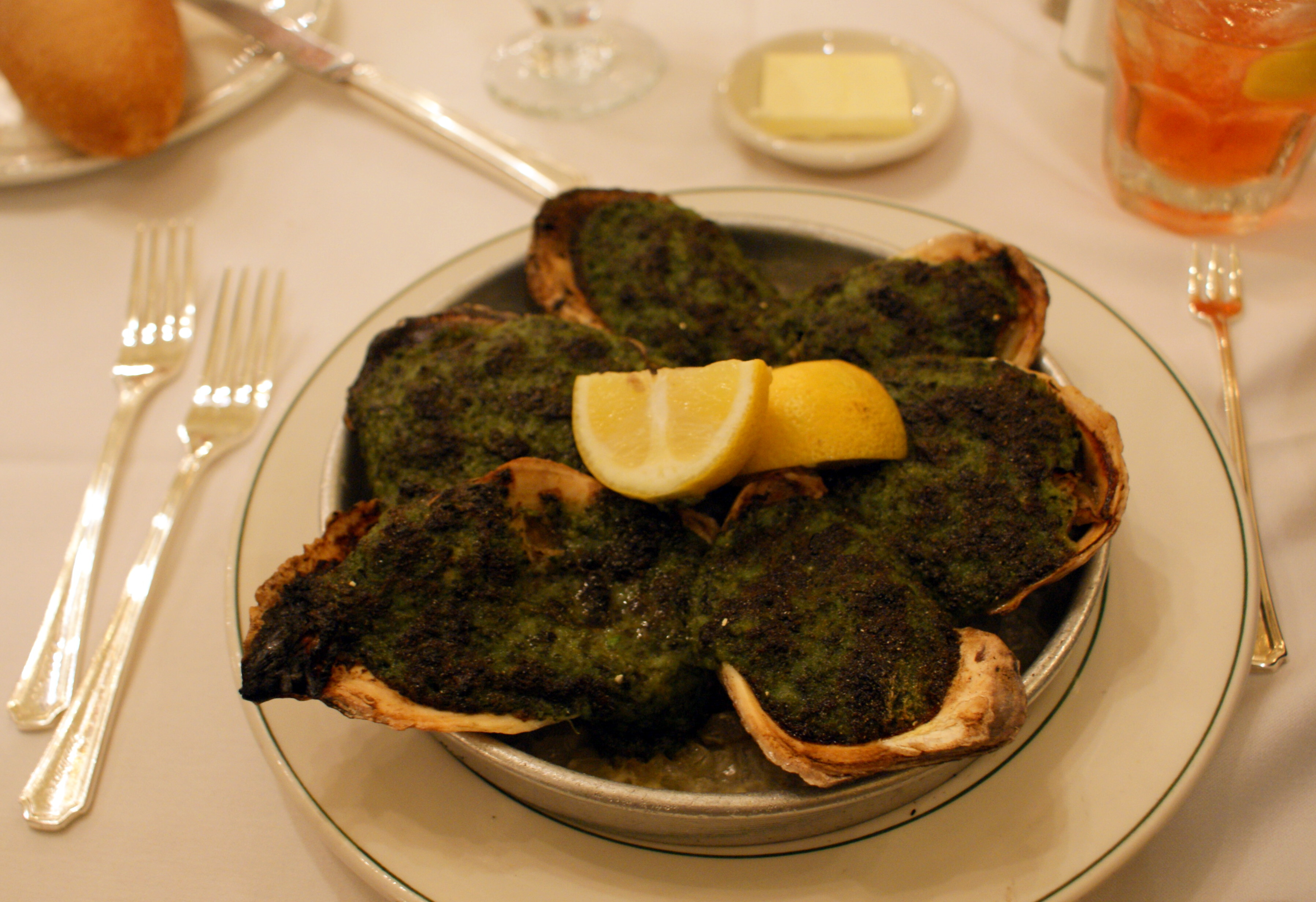 Oysters Rockefeller as served at Galatoires of New Orleans, Louisiana, USA.